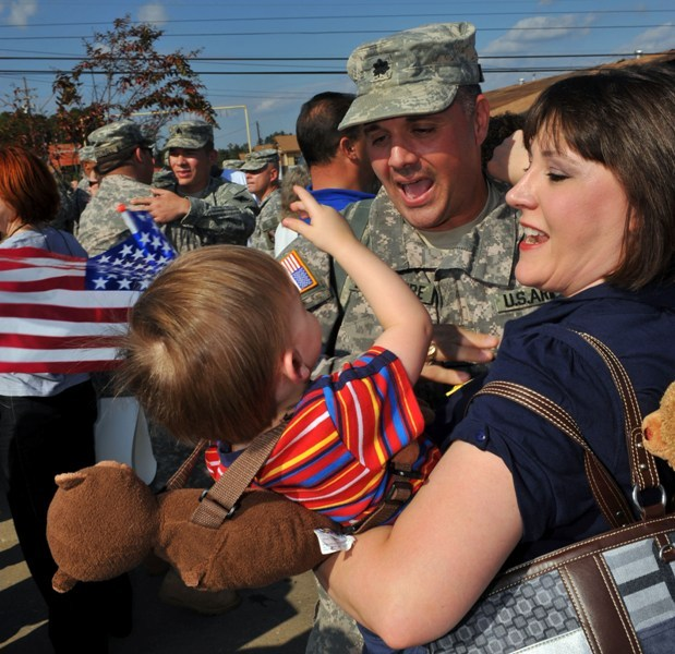 Lt. Col. Lee A. Lavespere, of the Louisiana Army National Guard's 225th Engineer Brigade, is greeted by his wife and son at a homecoming reception at Camp Beauregard near Pineville, La., Nov. 15. The Soldiers of Headquarters and Headquarters Company returned home after serving a year-long deployment in Support of Operation Iraqi Freedom.